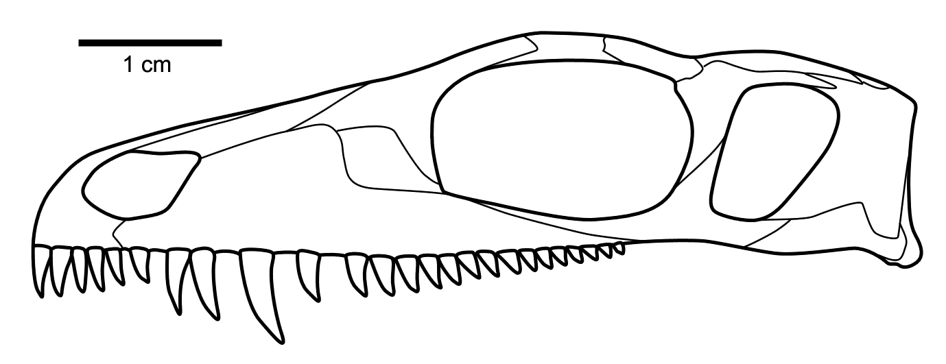 Outline reconstruction of the cranium of the varanopid synapsid amniote Mesenosaurus romeri Efremov, 1938 from the Middle Permian of European Russia (modified from Reisz and Berman 2001)